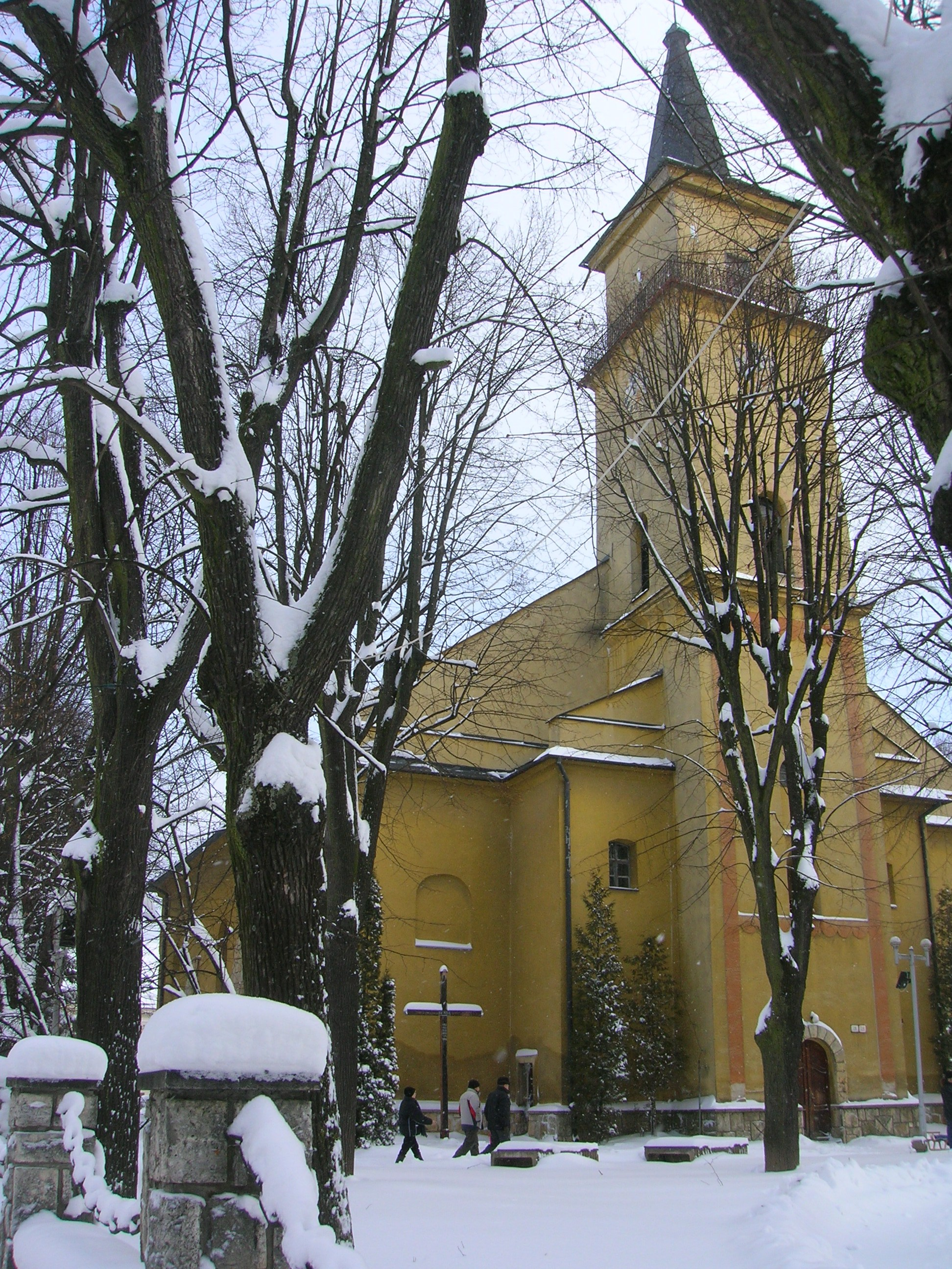 roman-catholic church of Saint Nicolas in Stará Ľubovňa in Slovakia